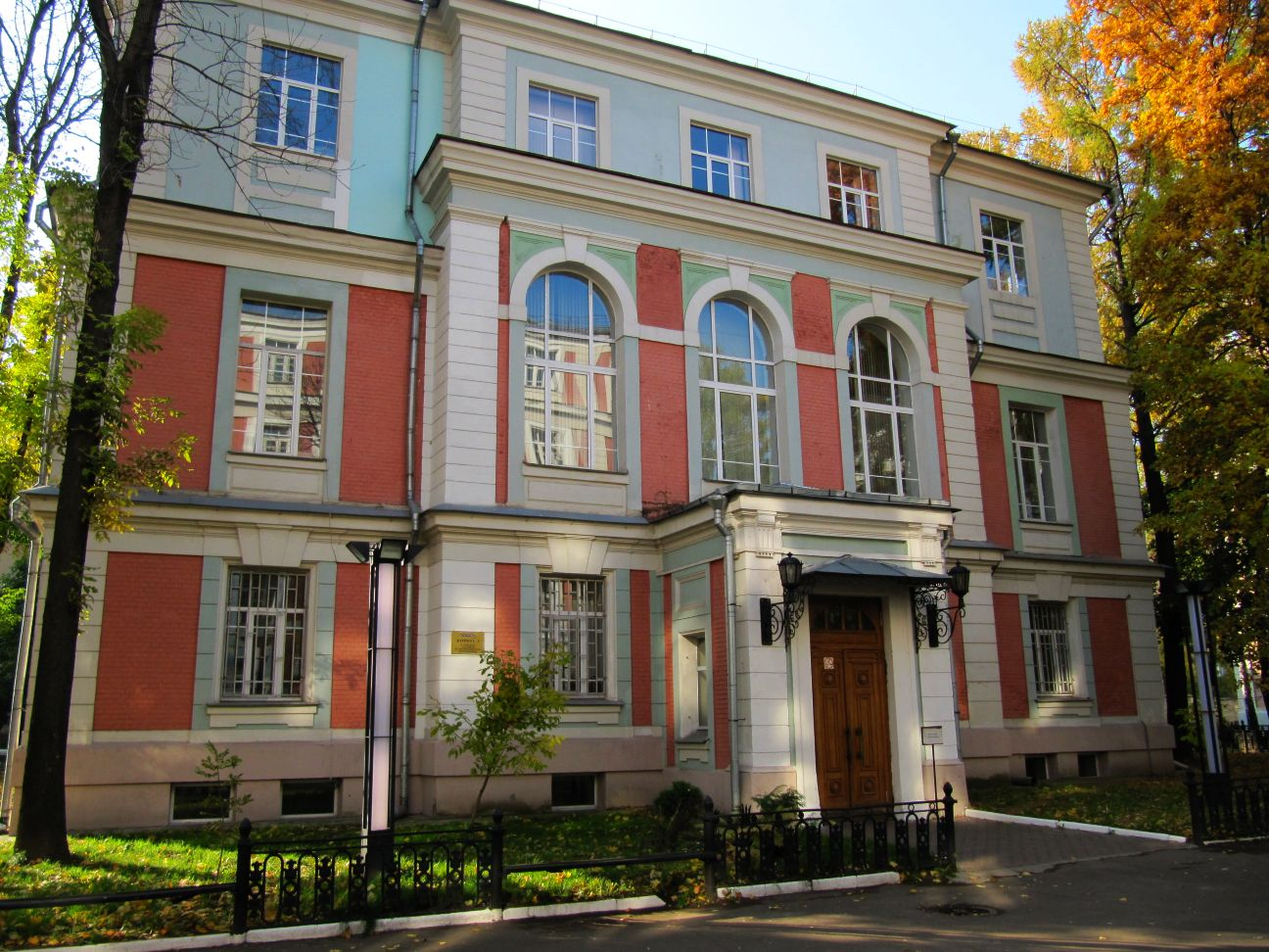 One of the buildings of the Moscow State University of Railway Engineering (MIIT)